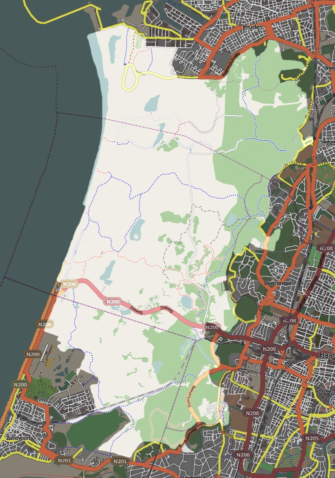 This map may be incomplete, and may contain errors. Don't rely solely on it for navigation.